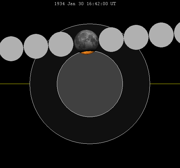 =lunar eclipse chart of moon's path through the earth's shadow. thumb